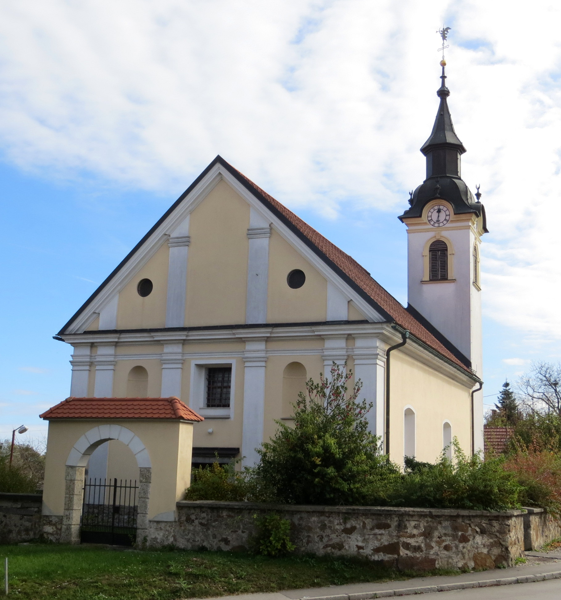 Church in Tomačevo, City Municipality of Ljubljana, Slovenia